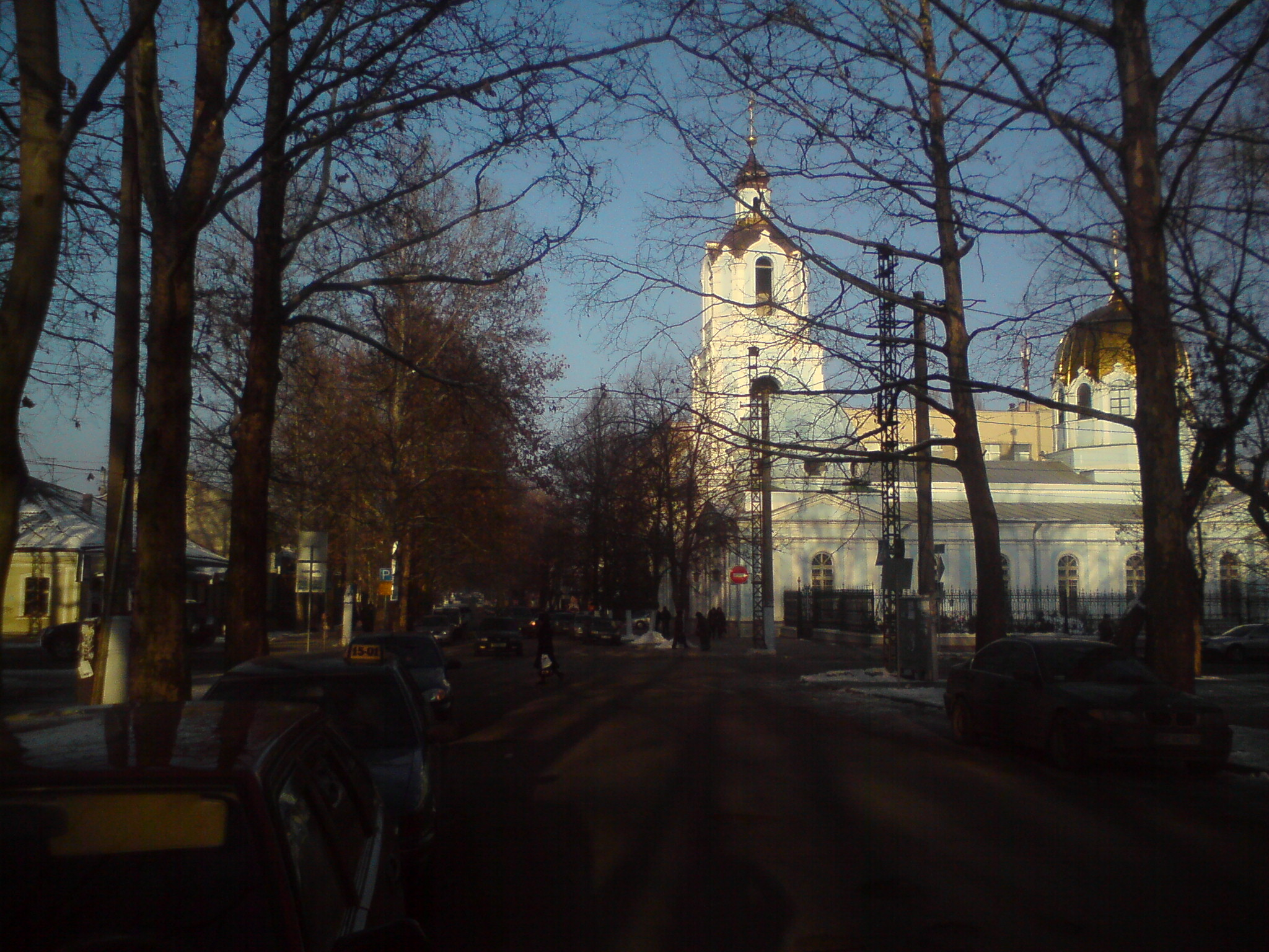 Mykolaiv, Lyagin street, Church of the Nativity of the Virgin